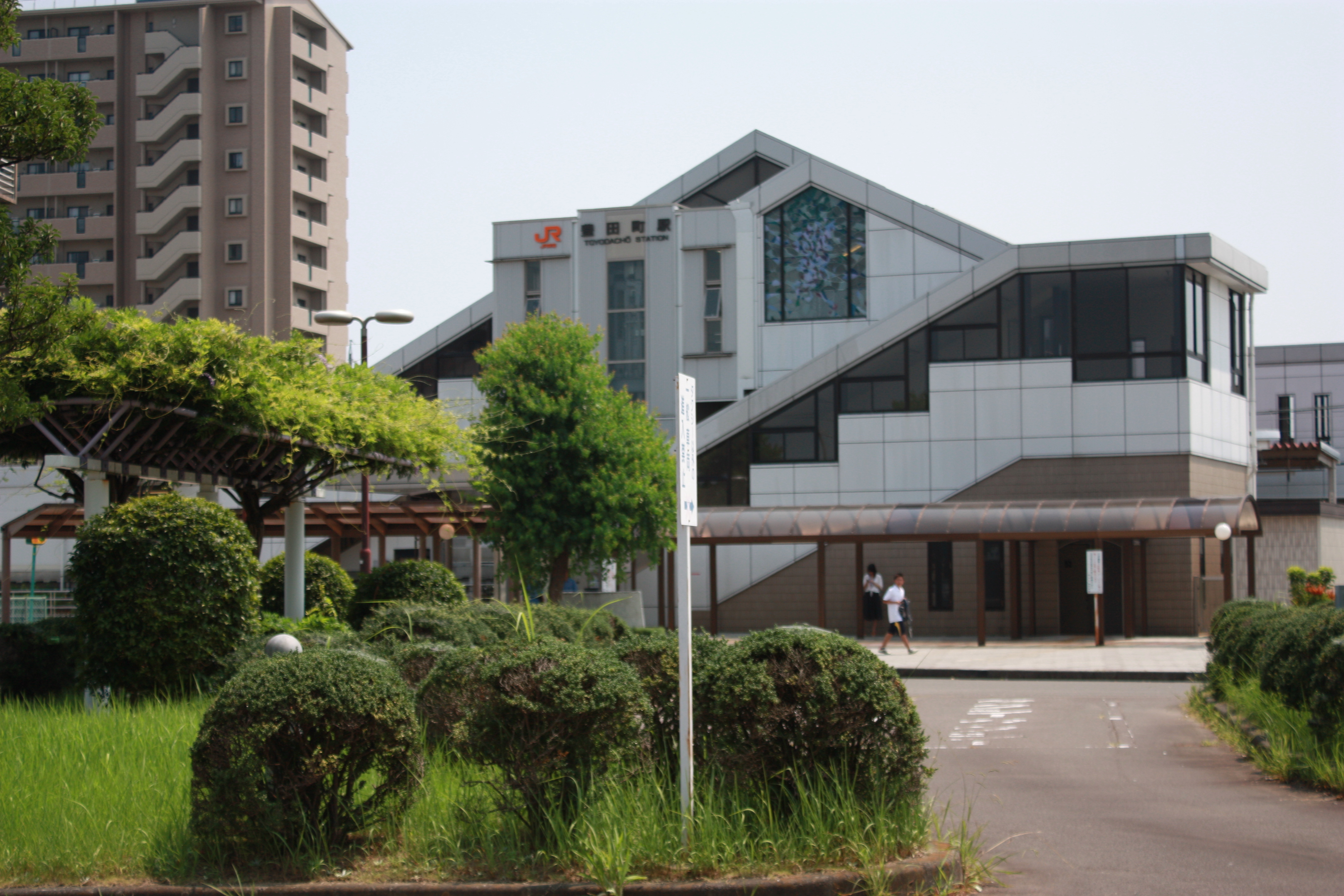 The north entrance of Toyodacho Station